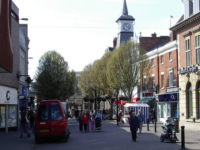 Clocktower in the marketplace